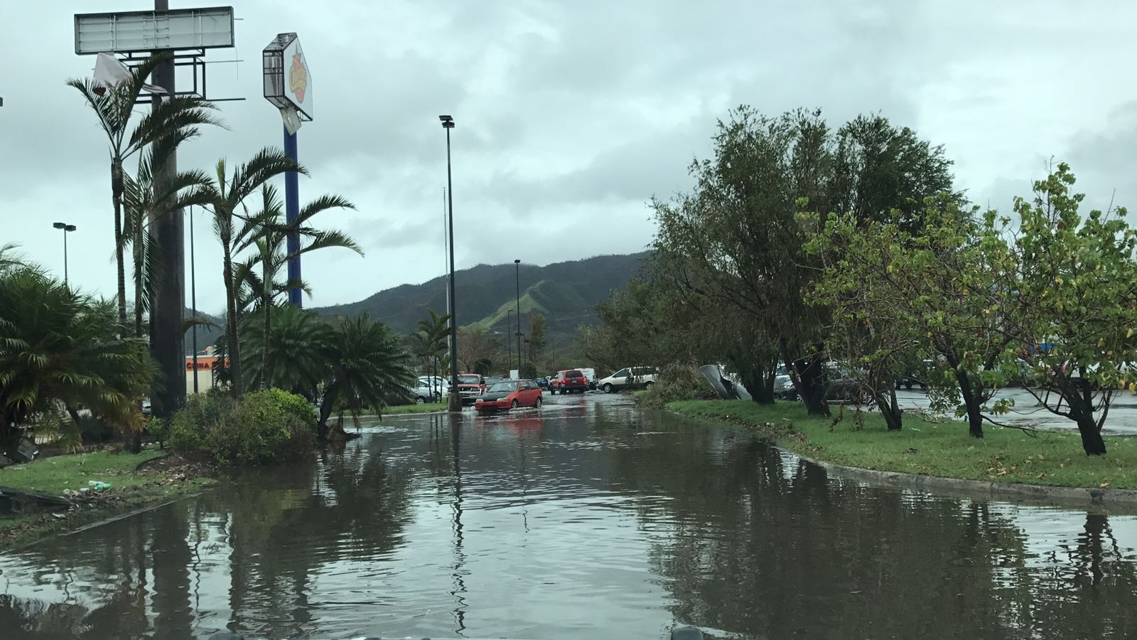 Standing water in Ponce, Puerto Rico, poses health risks for its residents more than a week after Hurricane Maria devastated the island.